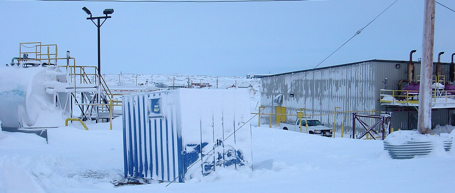 Whale Cove, Nunavut